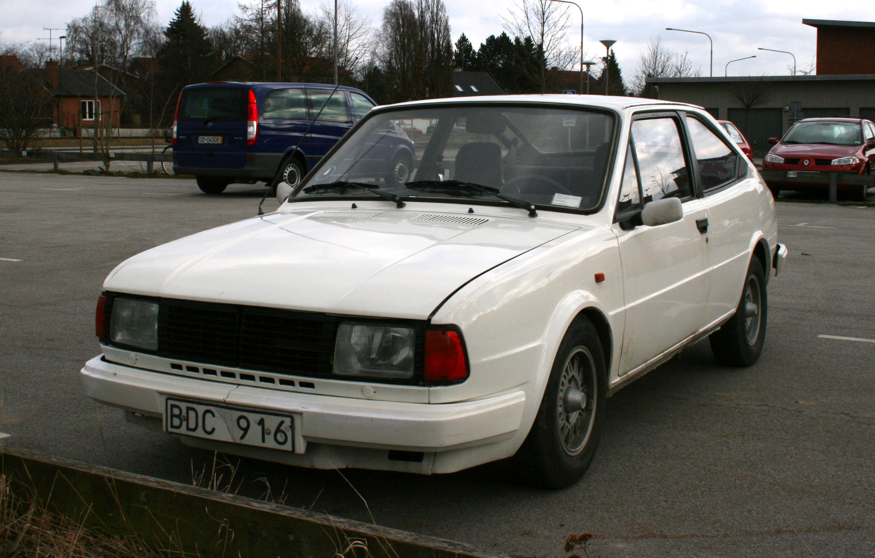 1985 Skoda Rapid 130